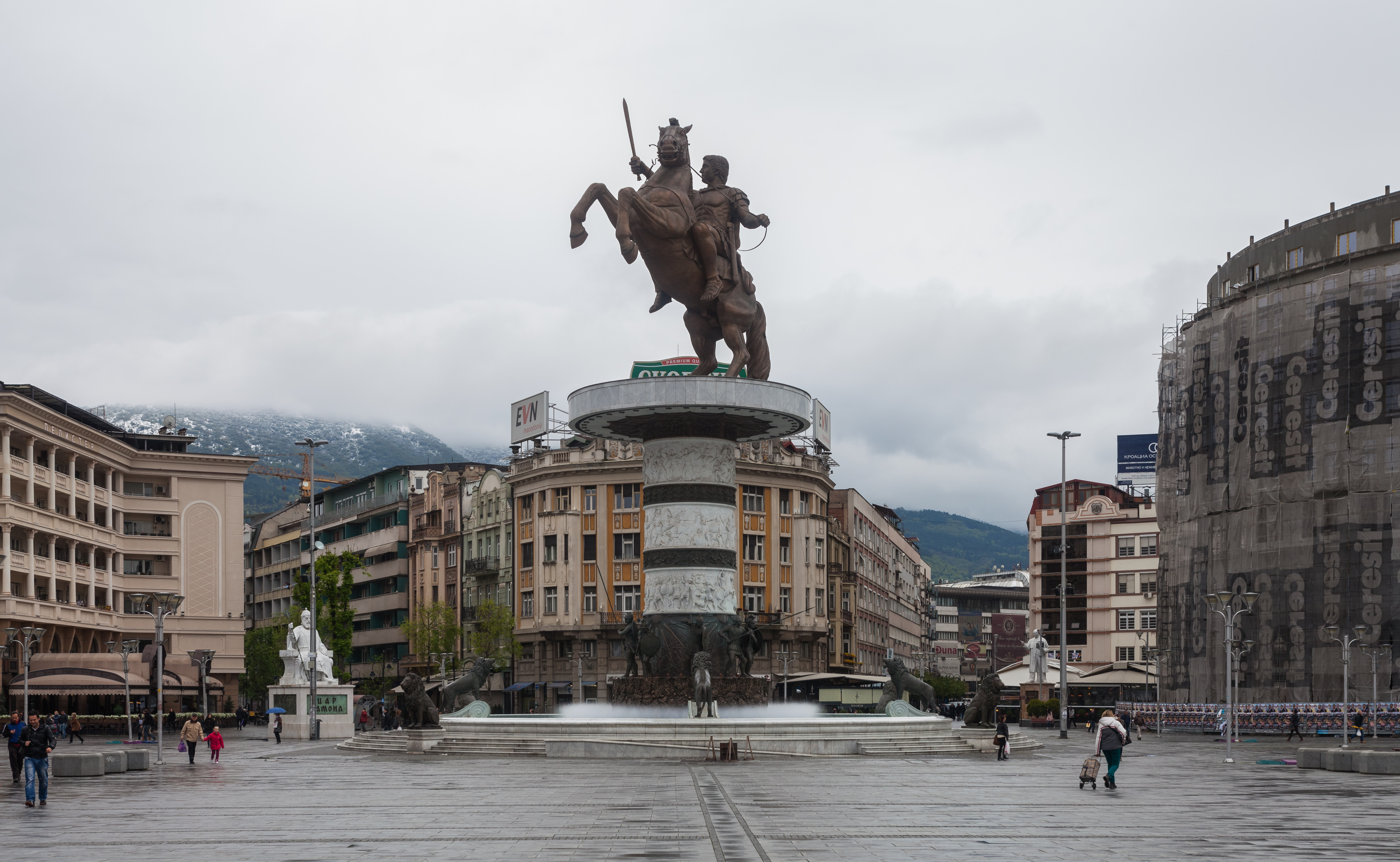 Macedonia Square, Skopje, Republic of Macedonia